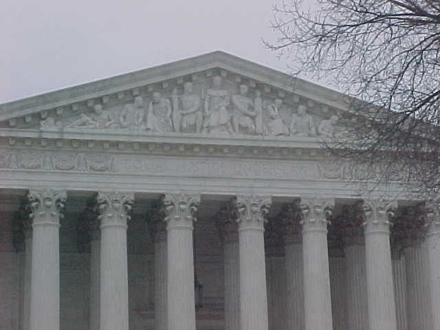 The facade of the supreme court building